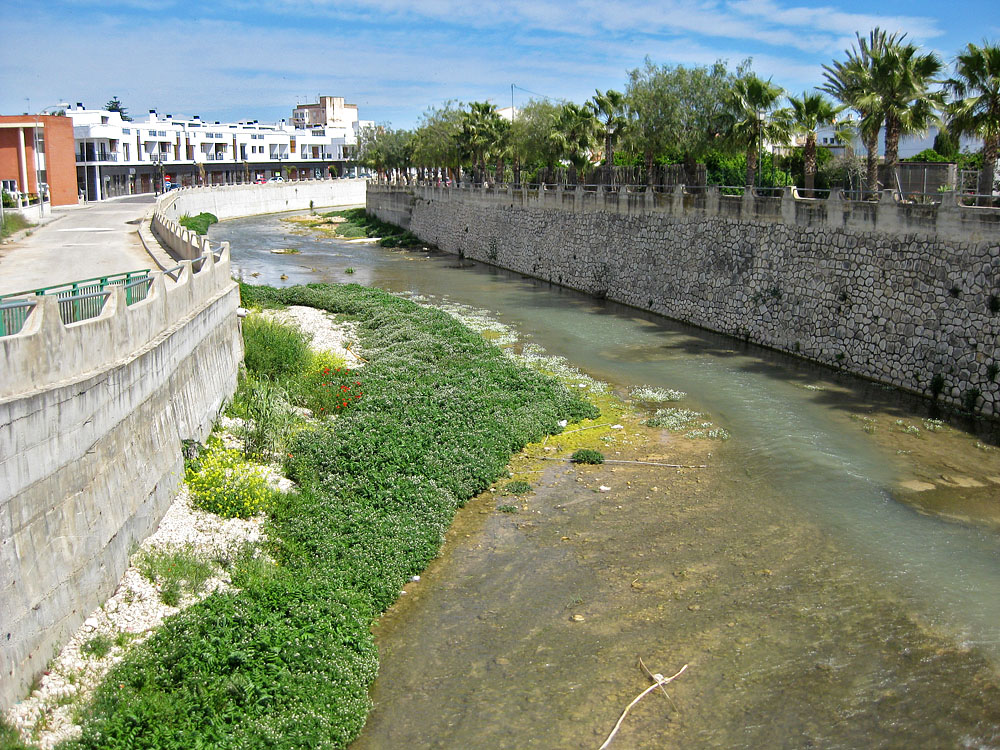 River Girona in Els Poblets, Valencian Country, Spain. Riu Girona als Poblets, Marina Alta, País Valencià